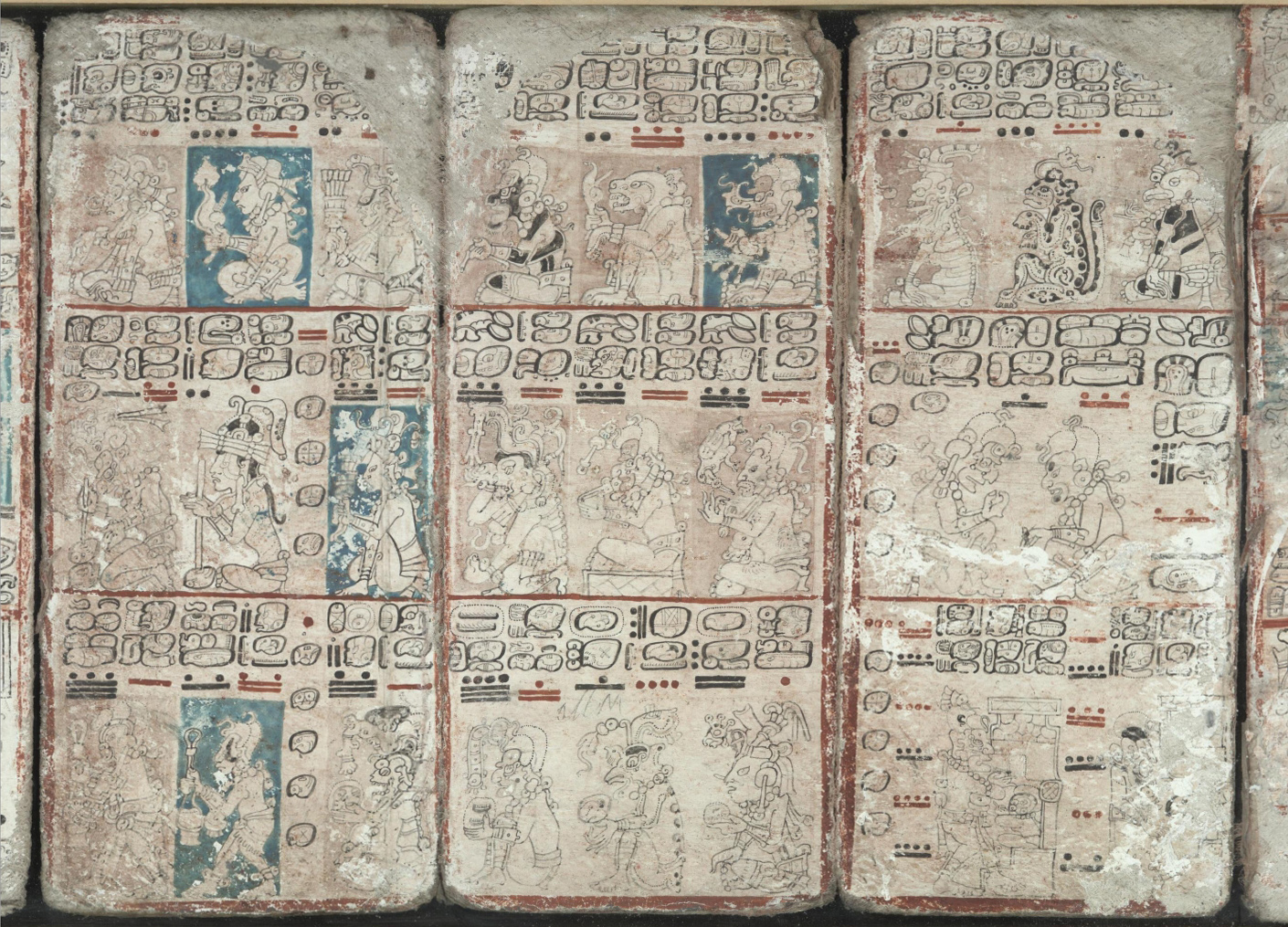 Pages 6 to 8 of the Dresden Codex